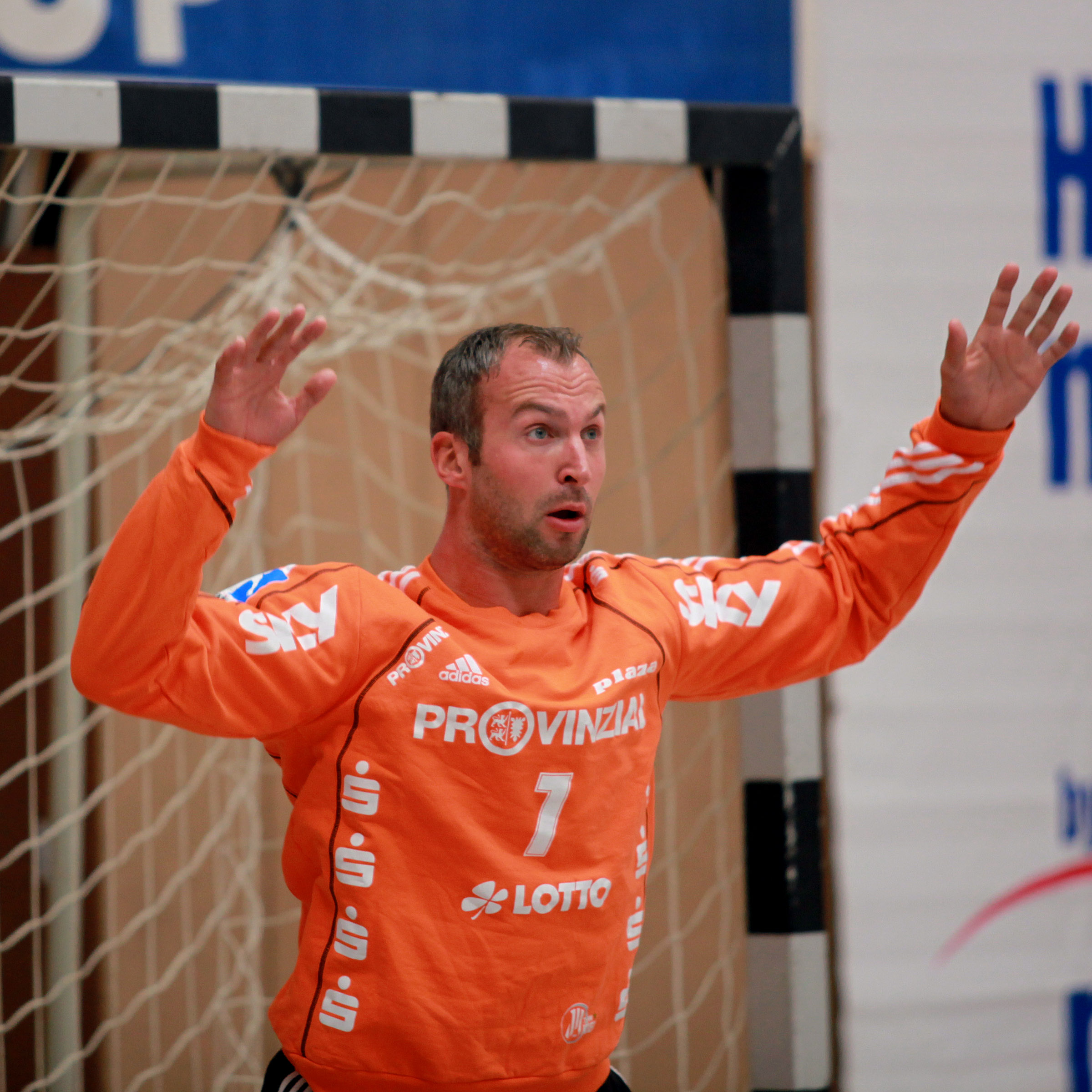 Thierry Omeyer, the French handball goal keeper from THW Kiel, during the Schlecker Cup 2009 in Ehingen (Germany)